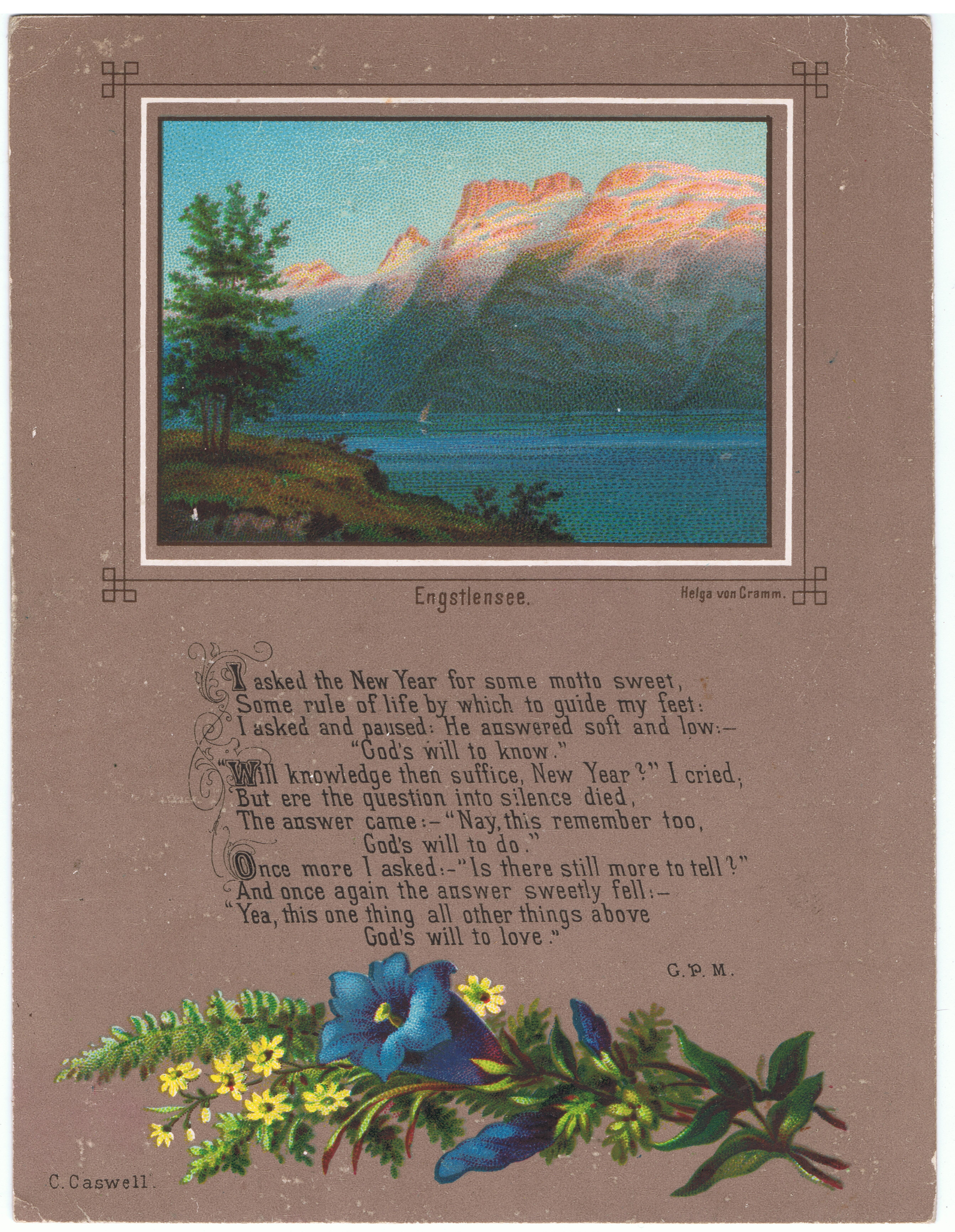 Helga von Cramm, chromolithograph card, Engstlensee, with verse by G.P.M. c. 1881. Written on the back:With all good and kind wiahes from M A Allan- 1881-.